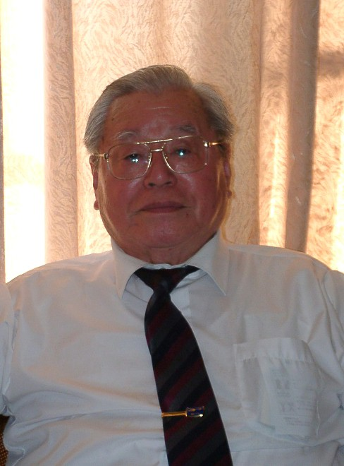 Makoto Simamoto glider pilot